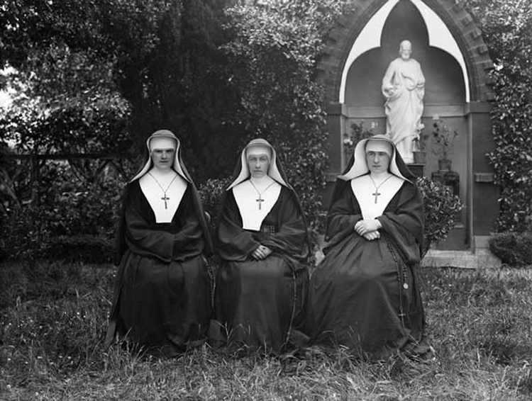 Three nuns at the Convent of the Holy Faith. There were (and still are) a number of Holy Faith convents in the South-East of Ireland. No information as to which one this was, so if anybody recognises the alcove complete with statue of St. Joseph(?) please let us know... Can anyone help confirm famclw's suggestion: "I think this could be the Holy Faith Convent at Rosbercon, outside New Ross. Margaret Aylward, the foundress was a Waterford woman and they had a foundation here called "St Joseph's."" Date: 13 June 1915 NLI Ref.: P_WP_2614